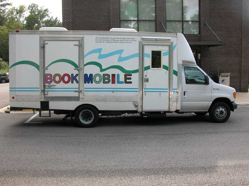 Bookmobile nicknamed "Dora" of the Tuscaloosa Public Library